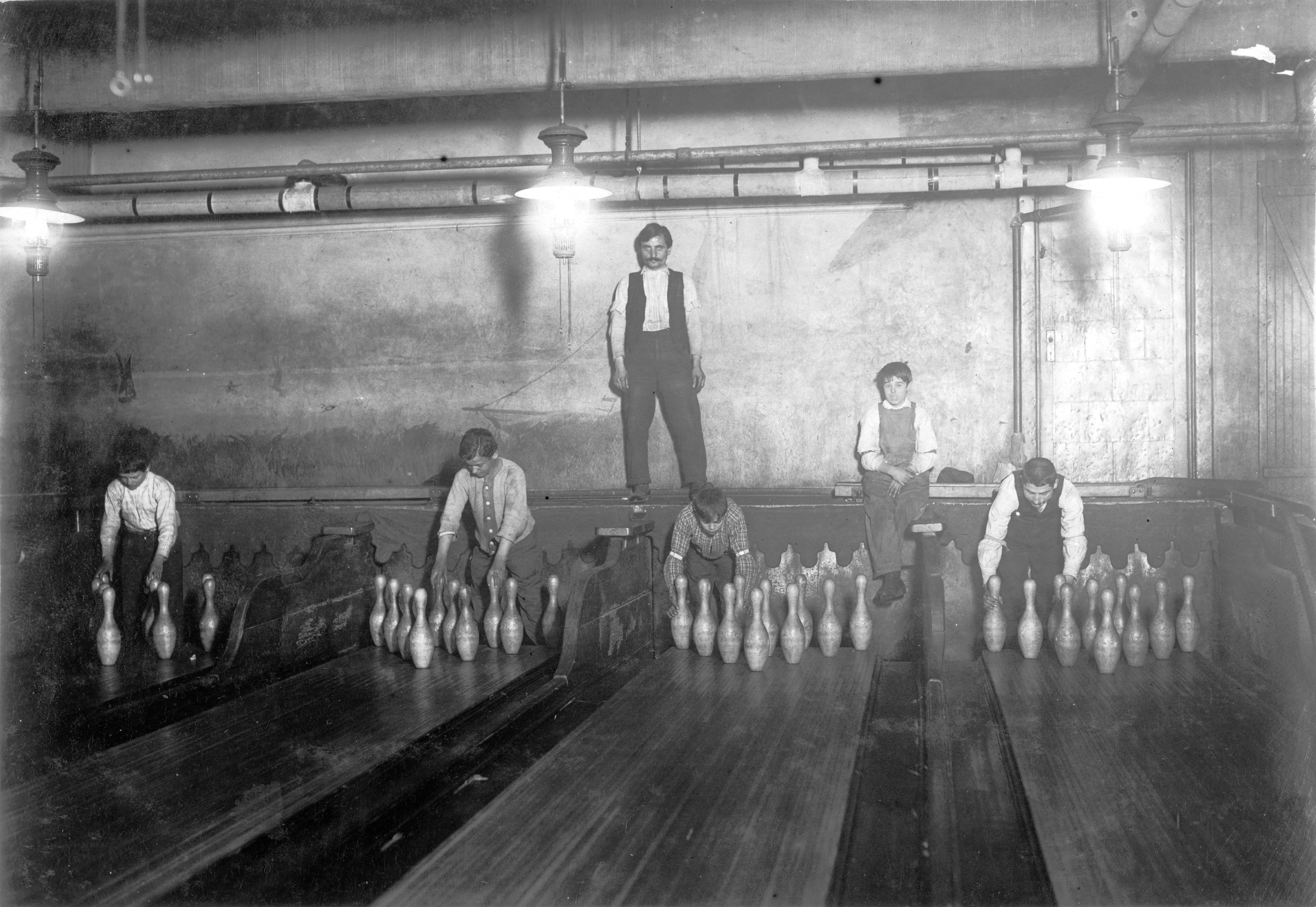 1:00 A.M. Pin boys working in Subway Bowling Alleys, 65 South St., B'klyn, N.Y. every night. 3 smaller boys were kept out of the photo by Boss. Location: New York--Brooklyn, New York (State).